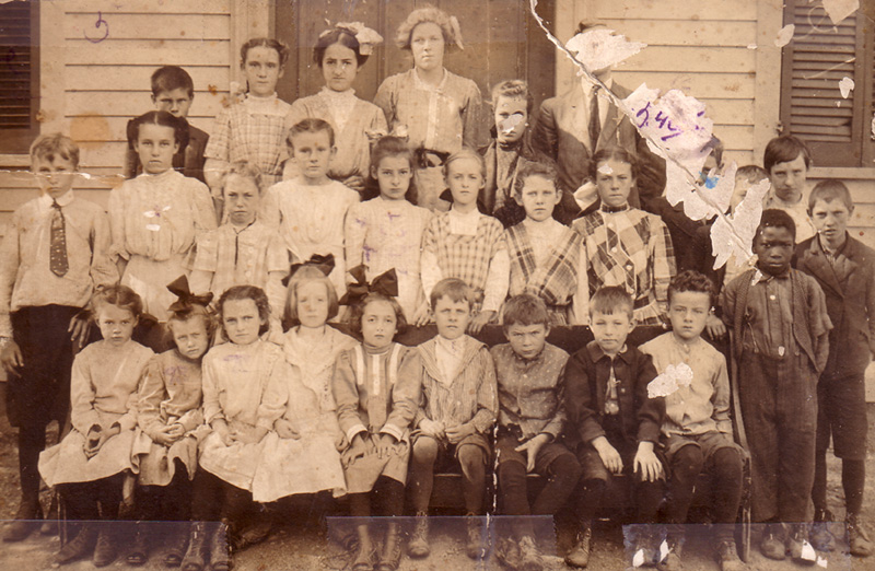 School photograph from Westbrookville area circa 1908-1910. Photograph from the collection of Ralph Freudenberg (1903-1980) and Nora Belle Conklin (1902-1963). Nora Belle Conklin (1902-1963) has been tentatively identified as the second person from the left in the bottom row. Source Richard Arthur Norton (1958- ) archive Ralph Freudenberg (1903-1980) and Nora Belle Conklin (1902-1963) collection